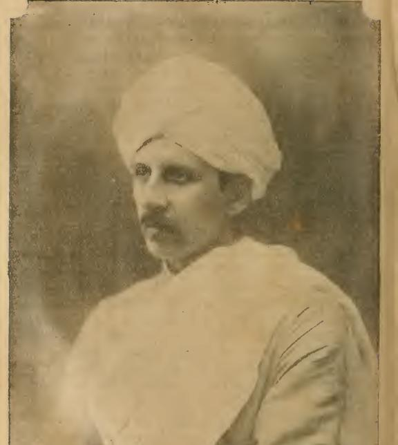 Portrait of A. K. Coomarasamy